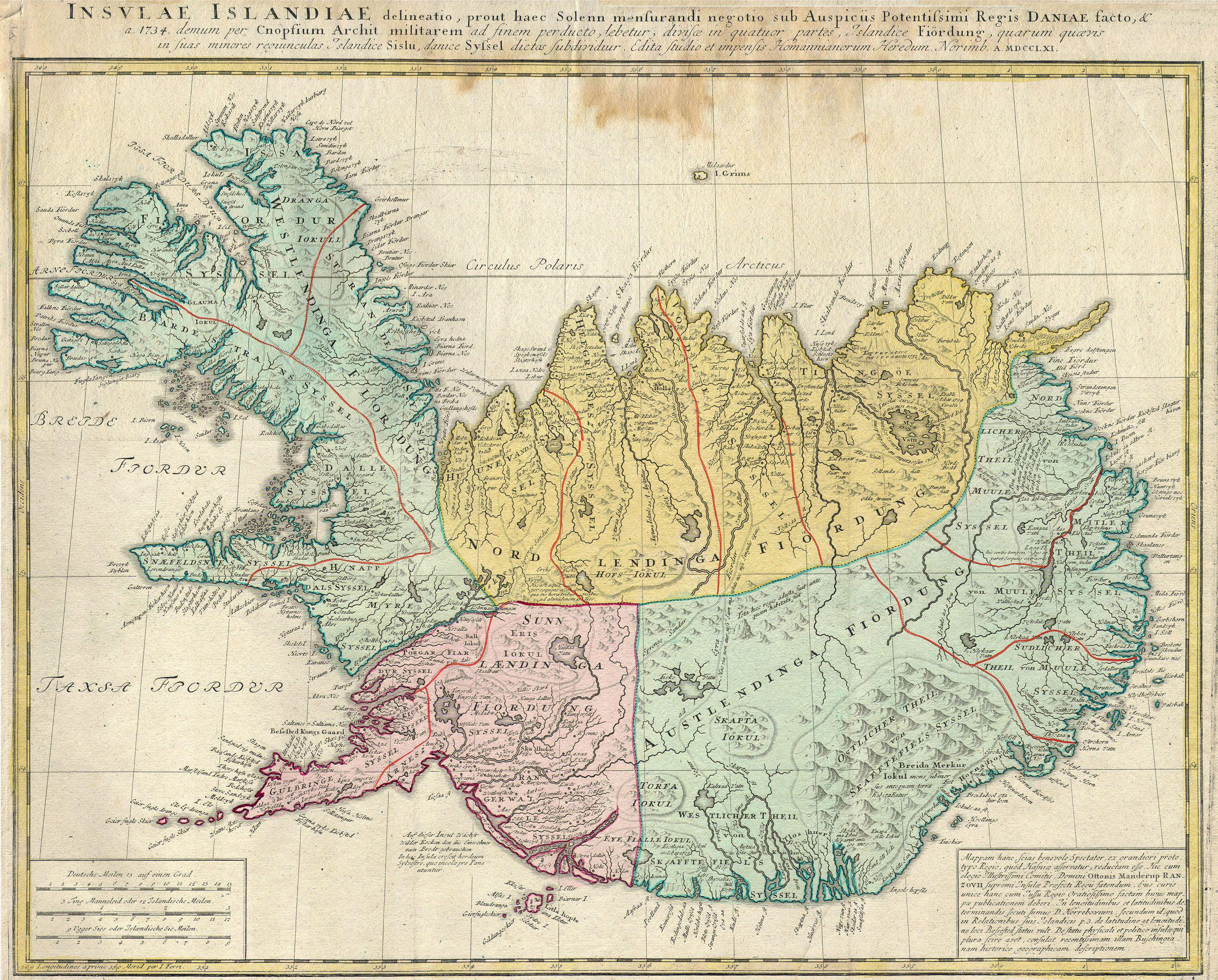 This is a rare and spectacular 1761 Homann Heirs map depicting Iceland. Fine map of this region compiled according to Danish surveys. Lovers of Icelandic sagas will recognize many of the towns and cities noted.